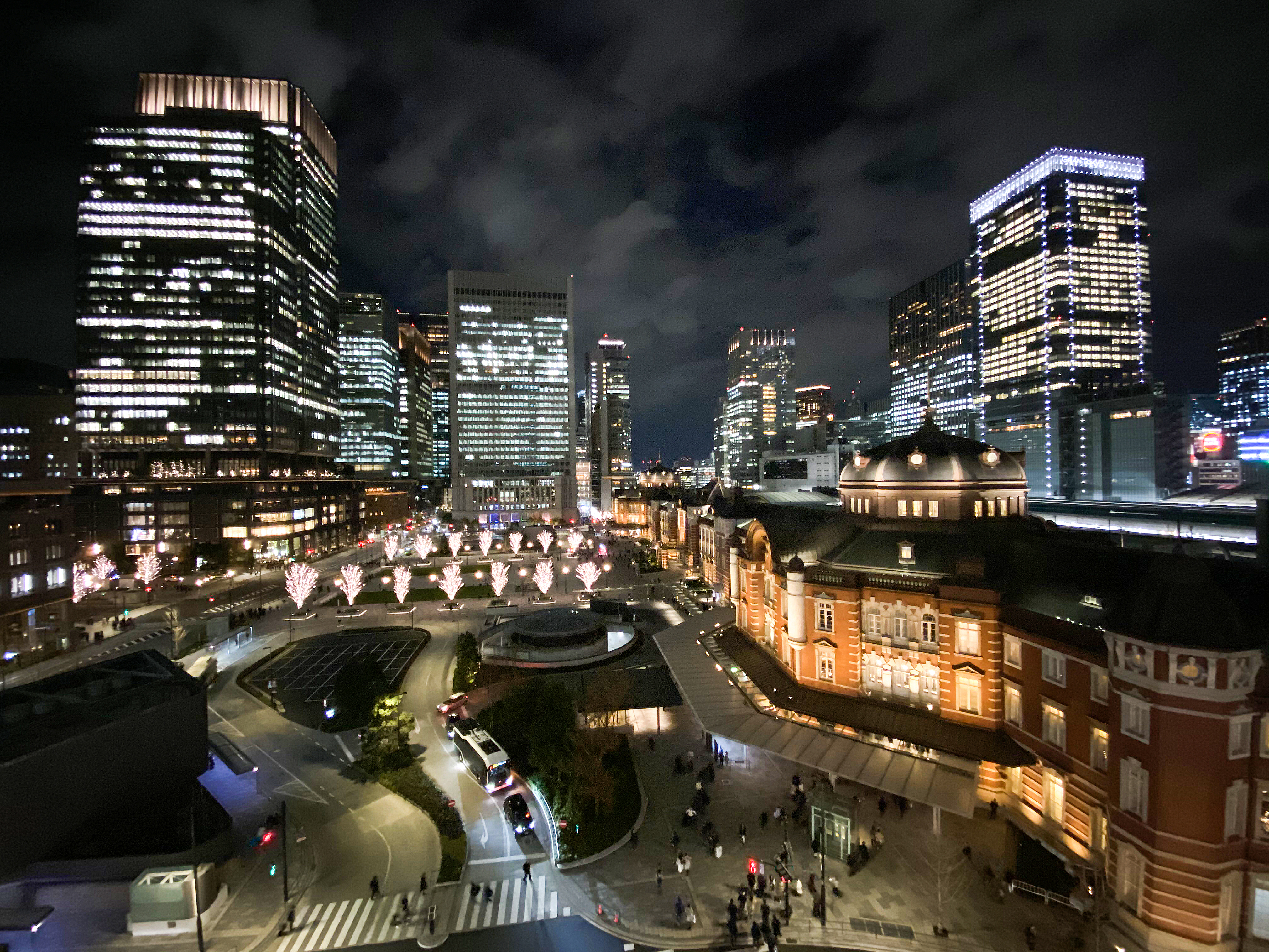 Views of the Tokyo Station Marunouchi Building from JP Tower